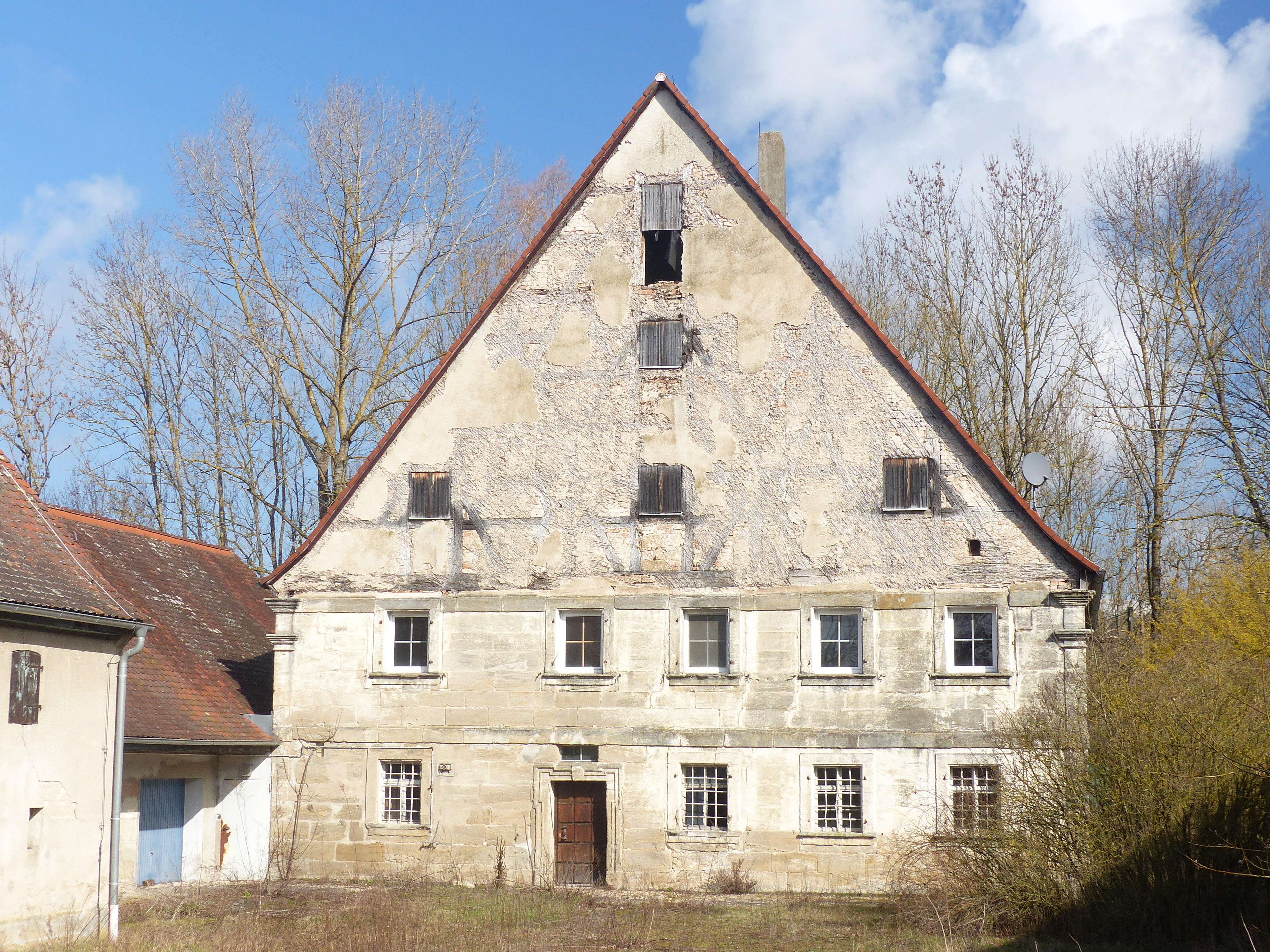 The residental building of the Brandermühle, a part of the municipality Eckental